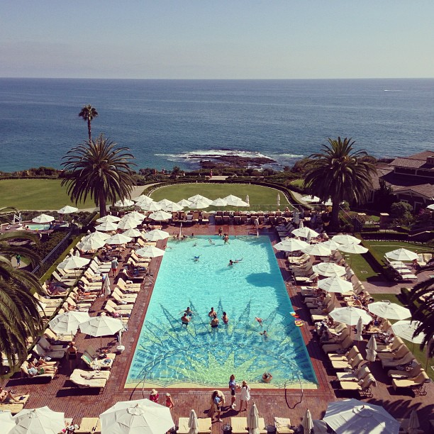 View of the pool at the Montage Hotel in Laguna Beach.